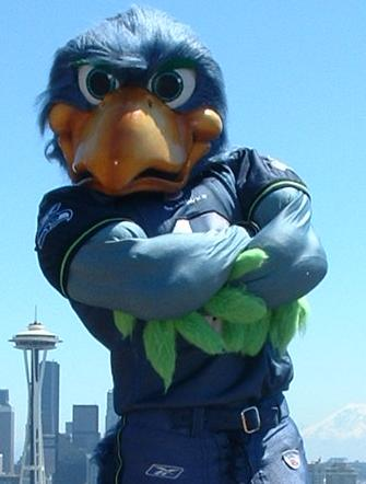 Blitz at Kerry Park in Seattle, Washington on July 18, 2005.